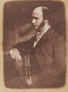 by David Octavius Hill, and Robert Adamson, calotype, 1844 'Portrait of Dr James Inglis of Halifax' calotype by David Octavius Hill (1802-70) and Robert Adamson (1821-48), taken at the British Association meeting, York, 1844. Dr. James Inglis was born and educated in Scotland, became Physician to Ripon public Dispensary, and curator of geology to Halifax Literary and Philosophical Society, where he lived from 1838. He was author of Treatise on English Bronchocele, with a few remarks on the use of Iodine and its compounds, 1838. Dr. James Inglis was the son of James Inglis and Charlotte Spalding Inglis. His maternal grandfather was Charles Spalding, improver of the diving bell. Inglis was born in Glasgow, Scotland on 06 September 1813. He married Louisa Rawson, daughter of Jeremiah Rawson, Esq. of Halifax. The couple had 1 daughter and two sons. Inglis died in Halifax, Yorkshire, England on 9 March 1851 and was buried in Holy Trinity Churchyard in Halifax on 17 March 1851. His widow died in 1909.